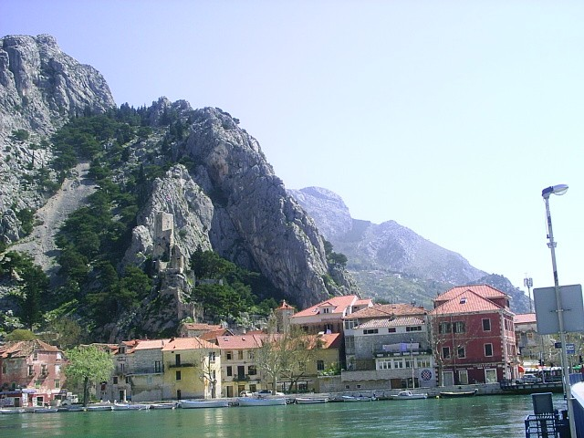 Town of Omiš, Croatia